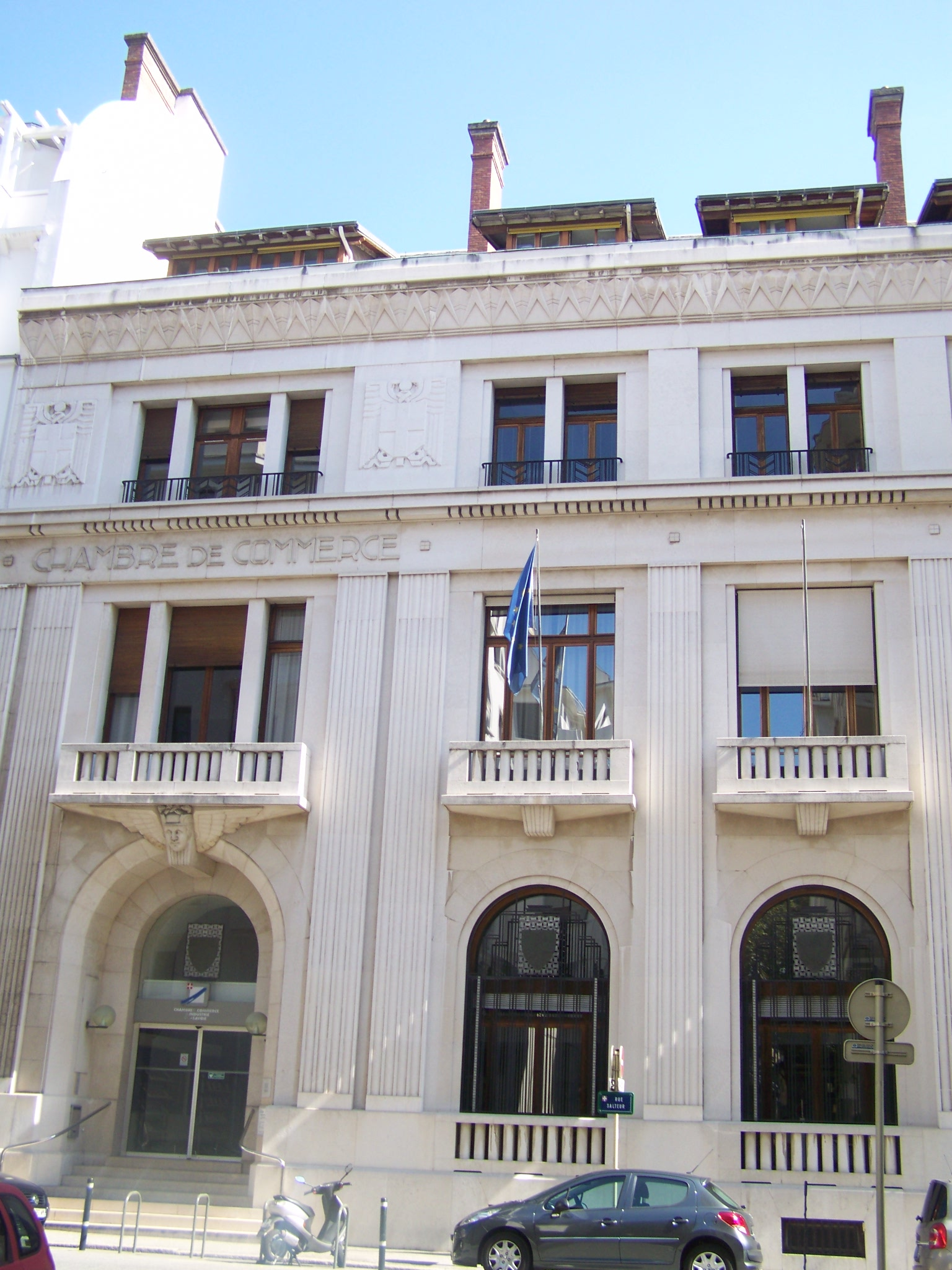 Sight of Chambre de Commerce et d'Industrie de la Savoie (Trade and industry chamber) building, in Chambéry, Savoie, France.